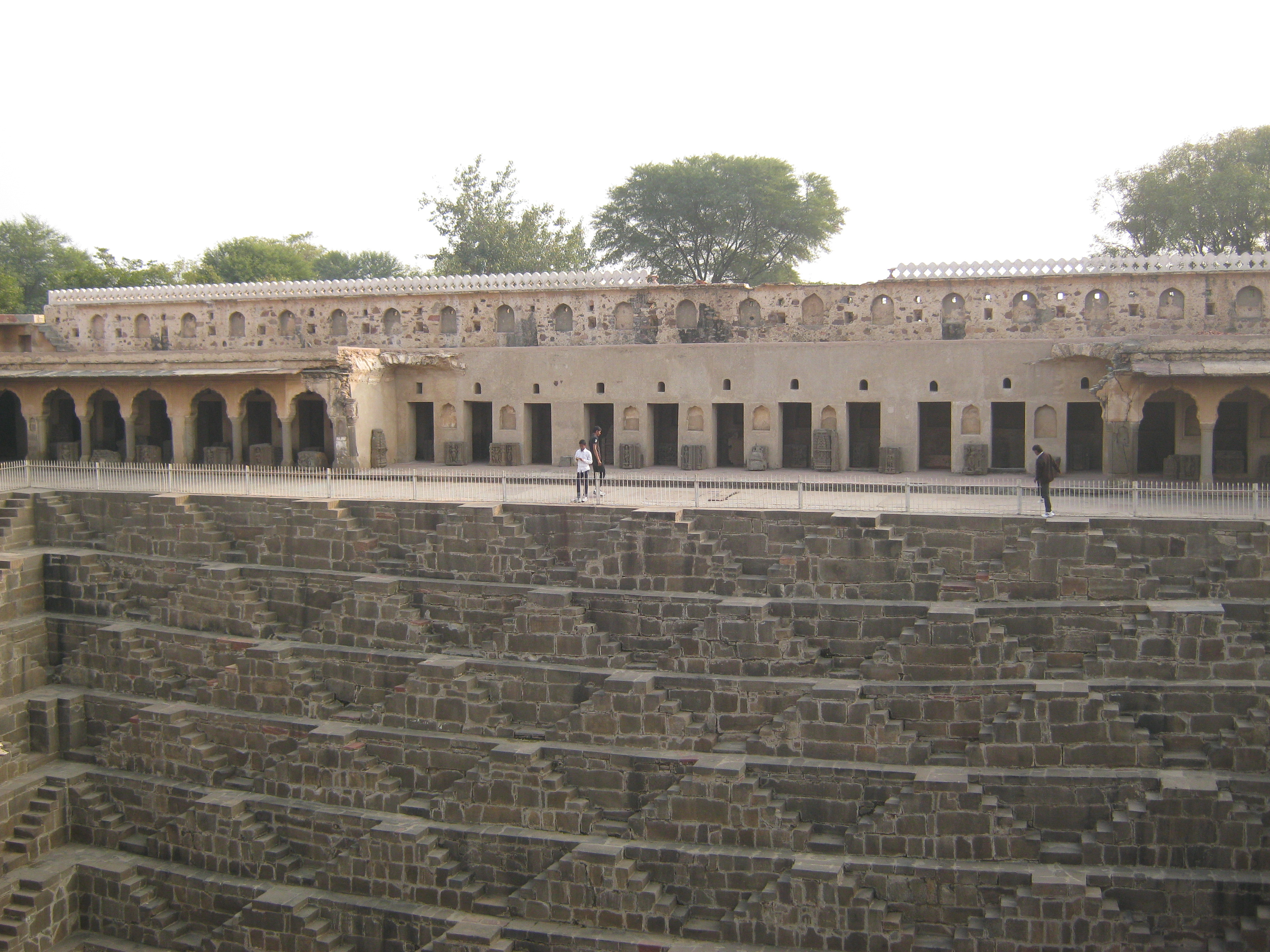 Chand Baori